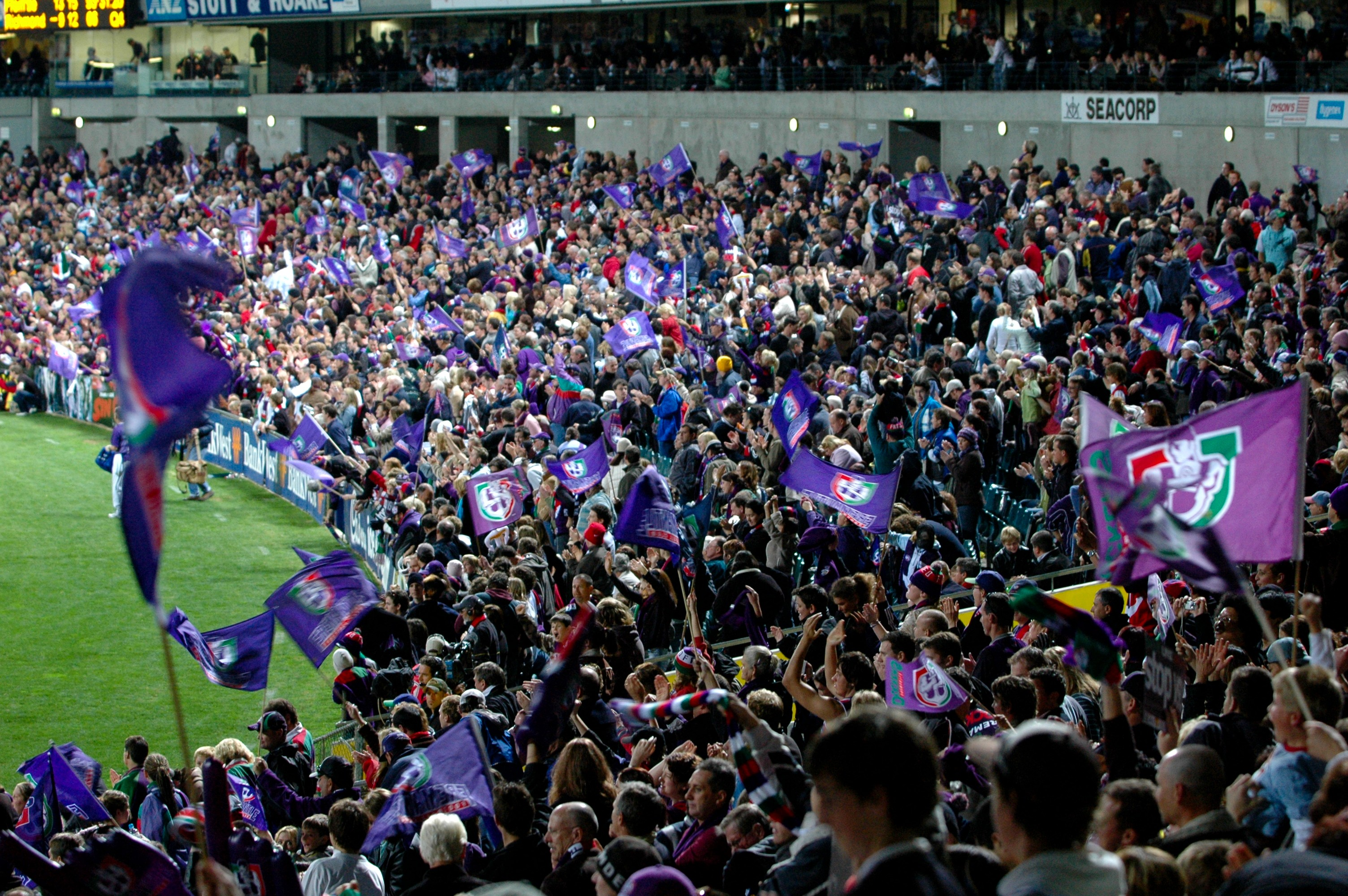 Dockers supporters cheering